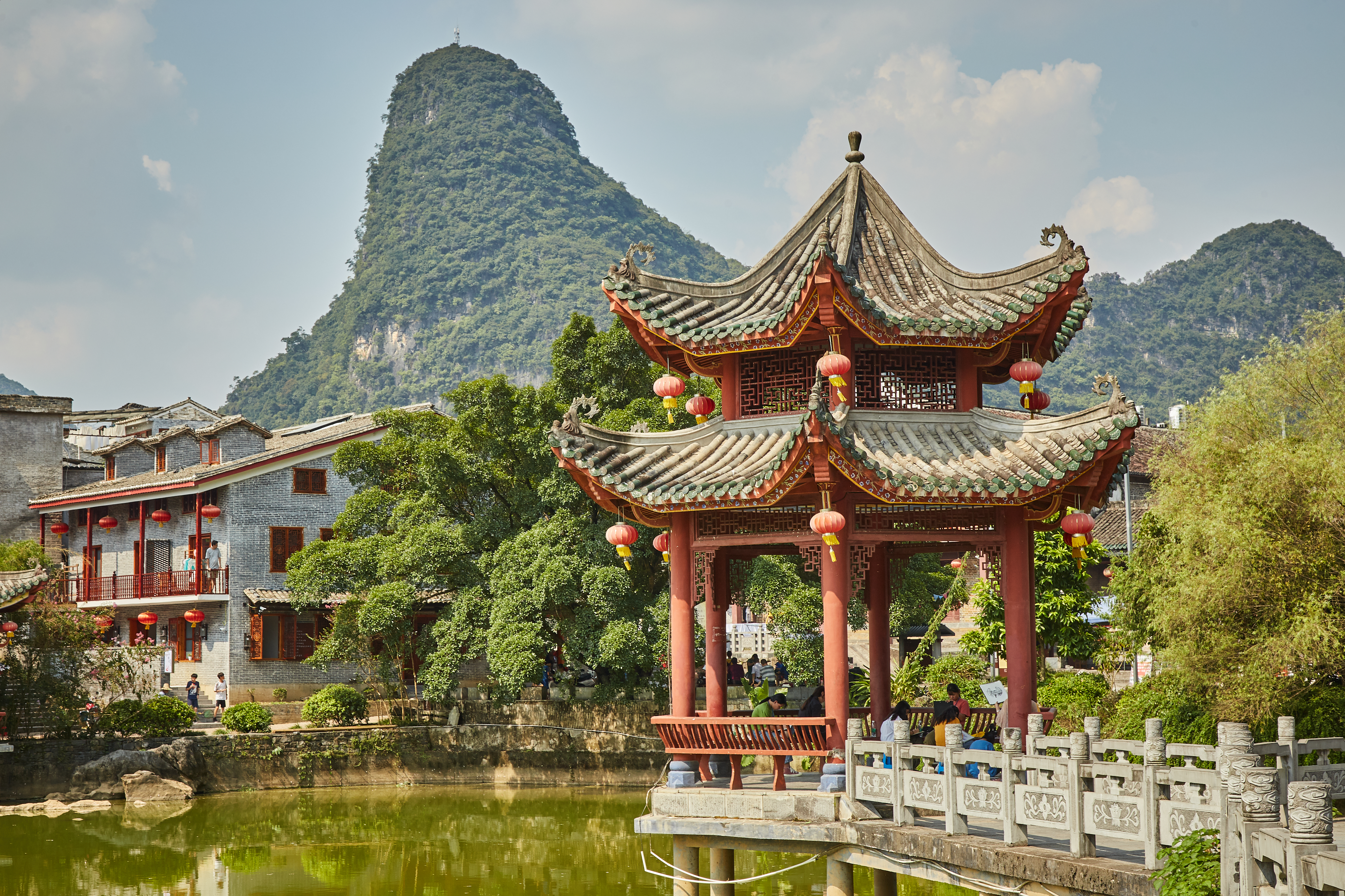 A view of from a garden in Huangyao ancient town